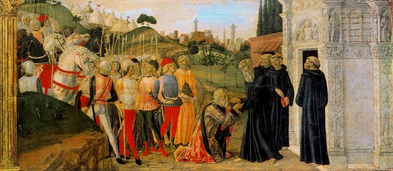 Scenes_from_life_of_st_Benedict_Neroccio.jpg